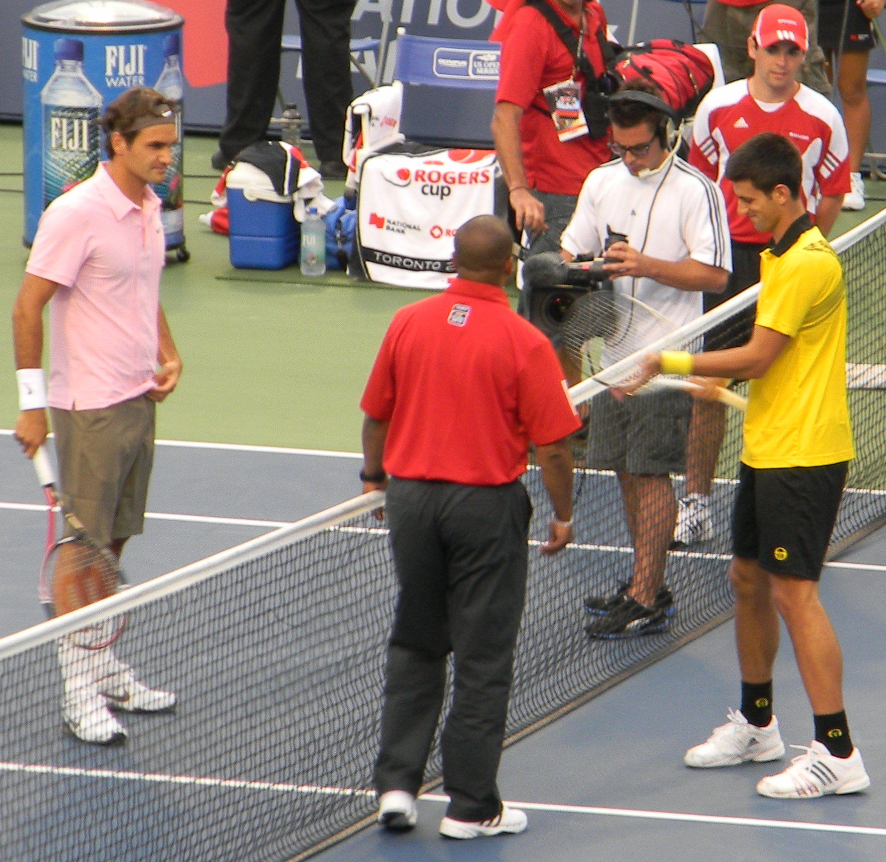 2010 Rogers Cup in Toronto, at Rexal Centre, Semifinal game Djokovic-Federer 1:2 (1:6, 6:3, 5:7)